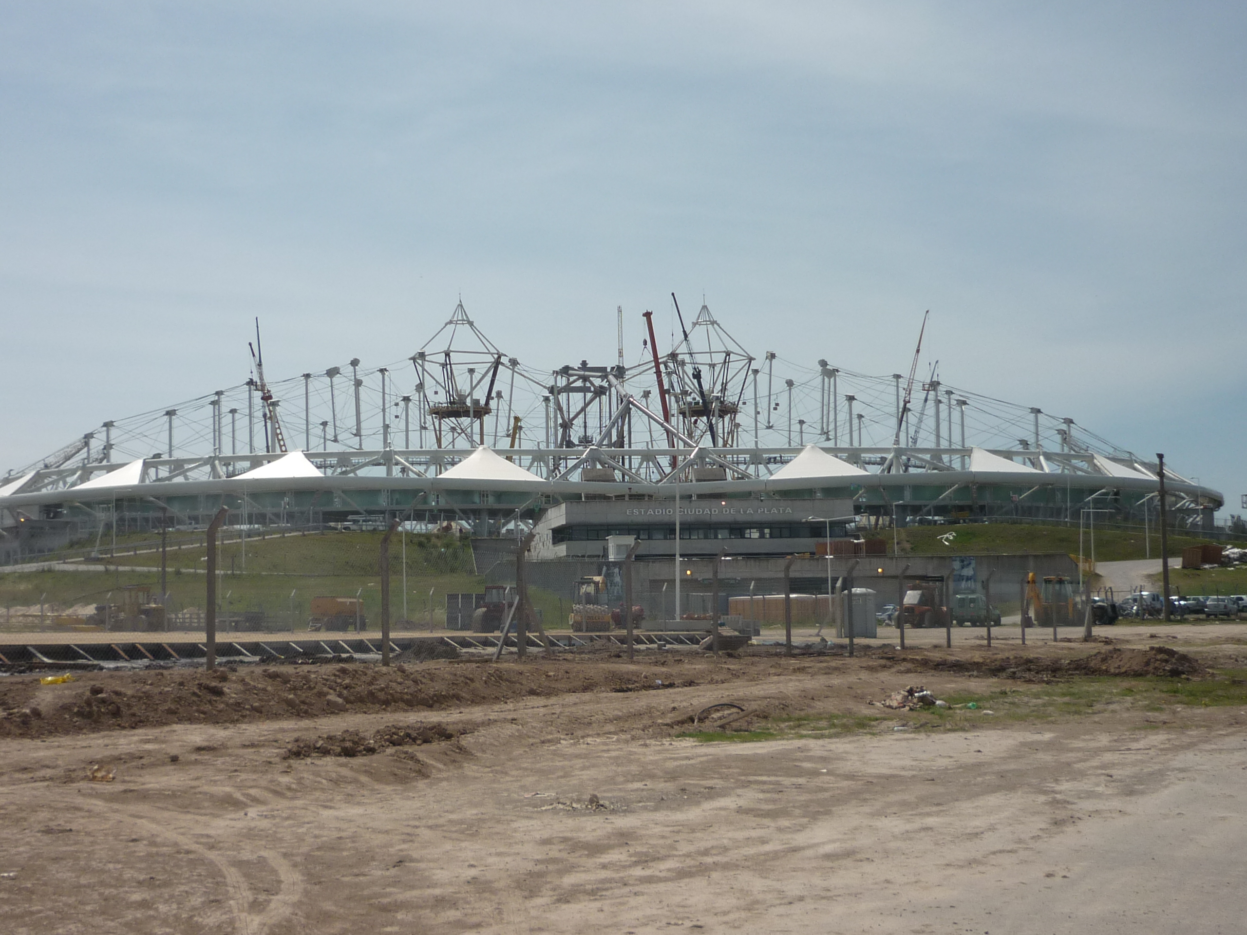 Stadium "Ciudad de la Plata". Progress of the works of the roof.